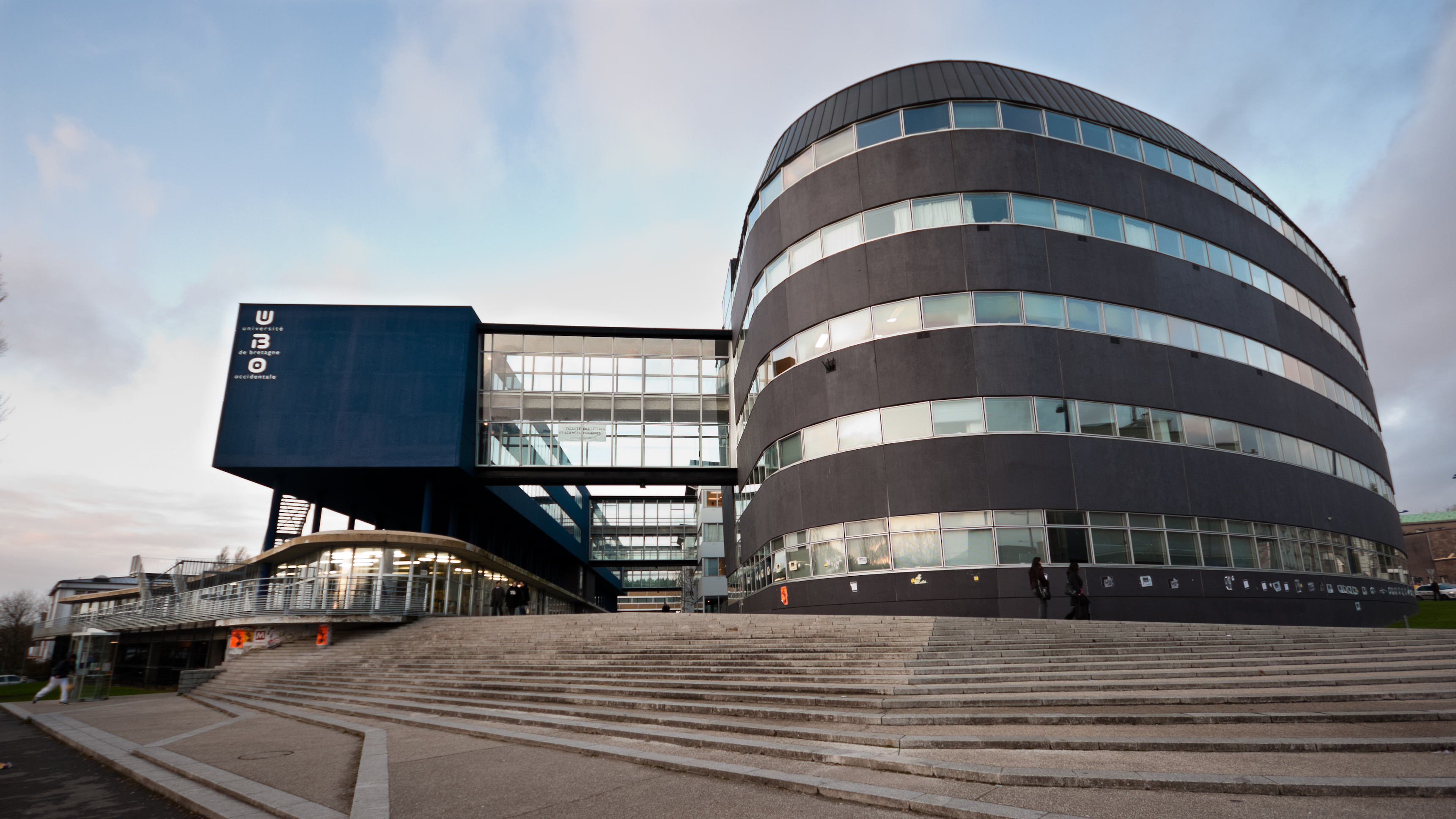 Building of the "Université de Bretagne Occidentale"